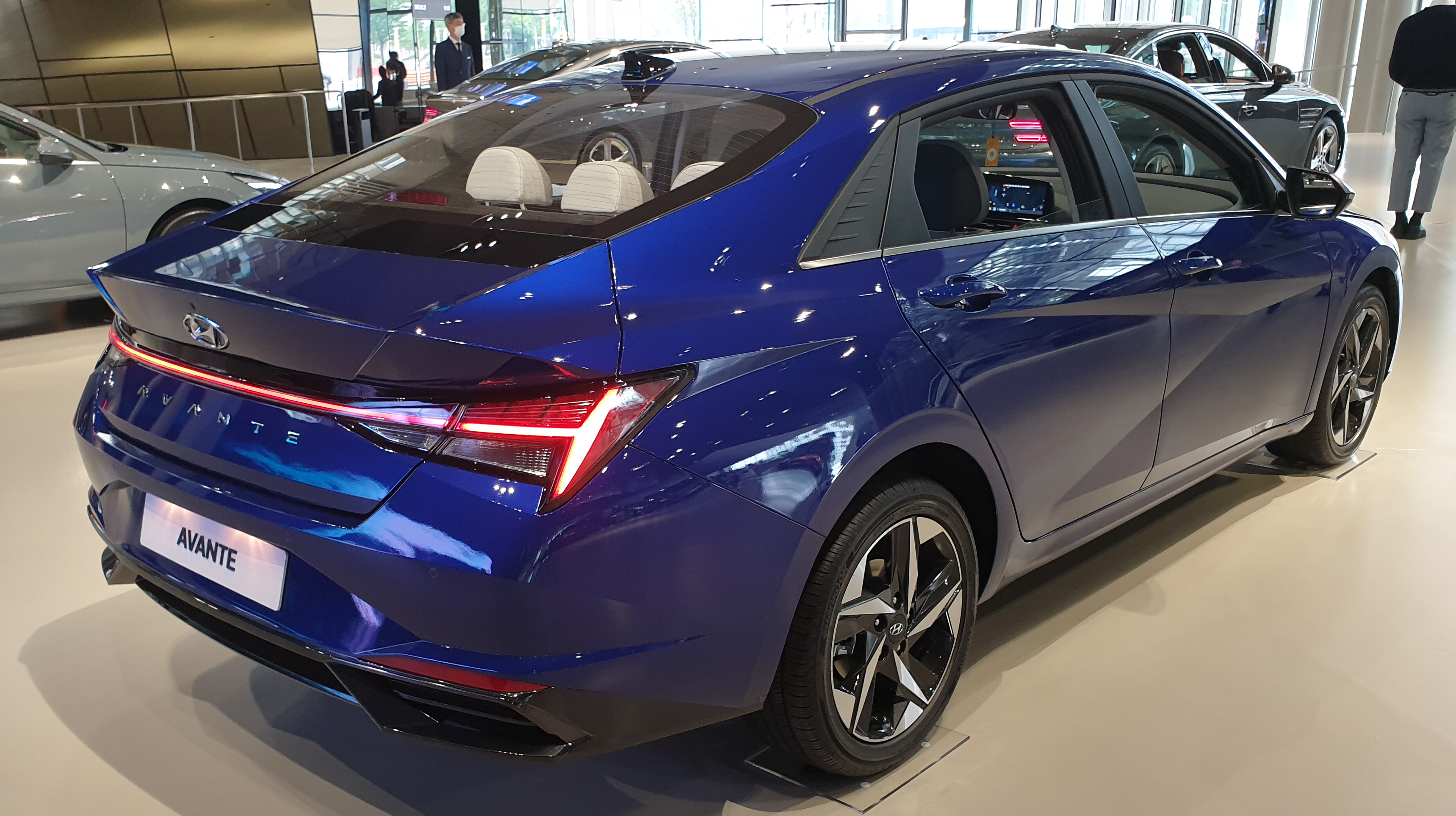 Rear three quarter view of KDM spec Elantra